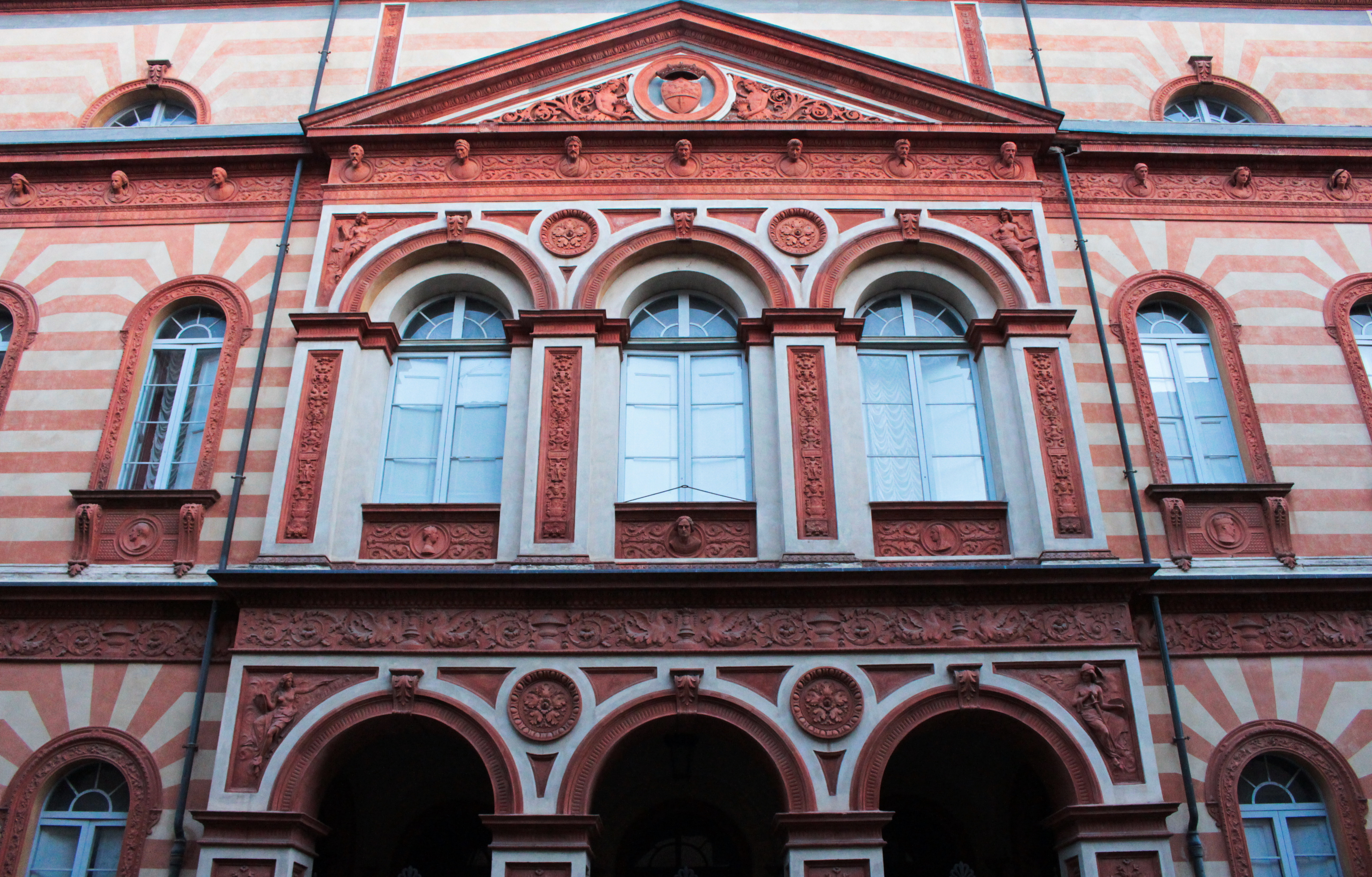 This is a photo of a monument which is part of cultural heritage of Italy.